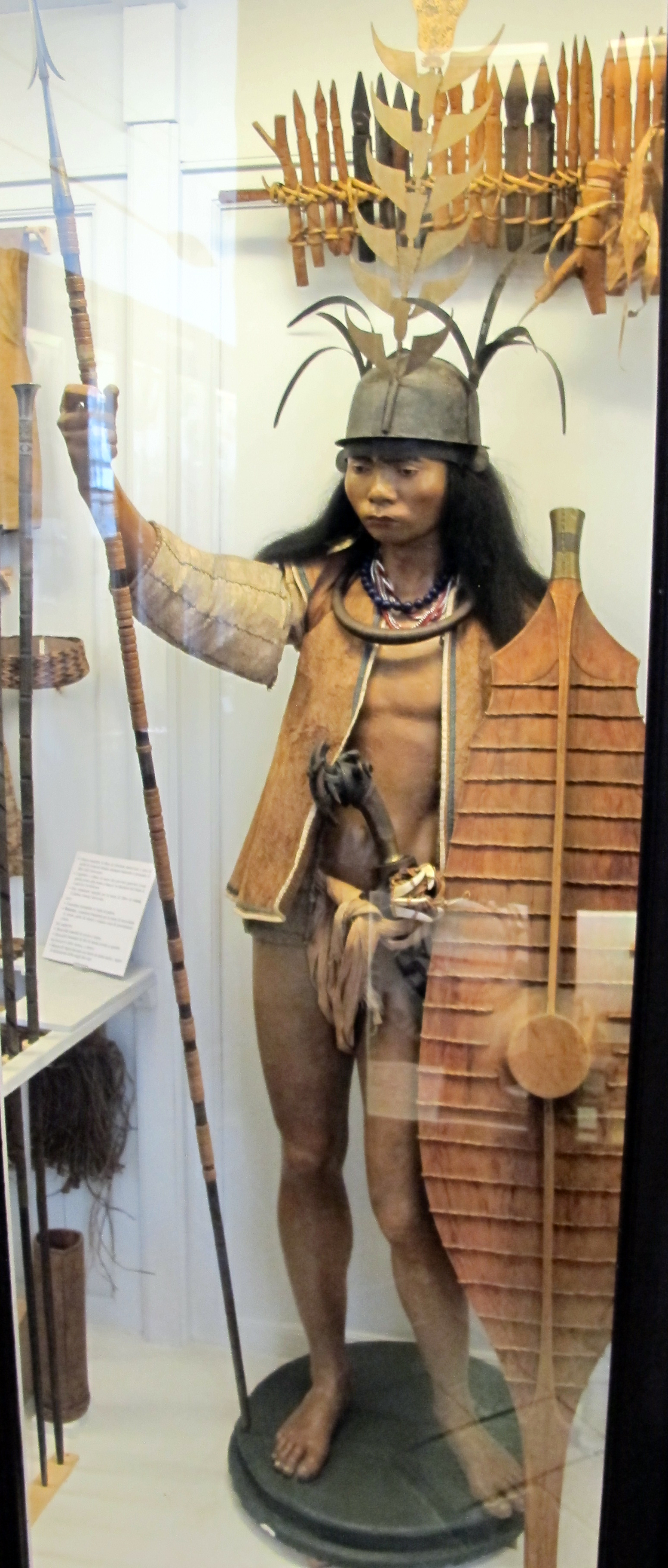 Museo di storia naturale (Florence) - Anthropology and Ethnography section